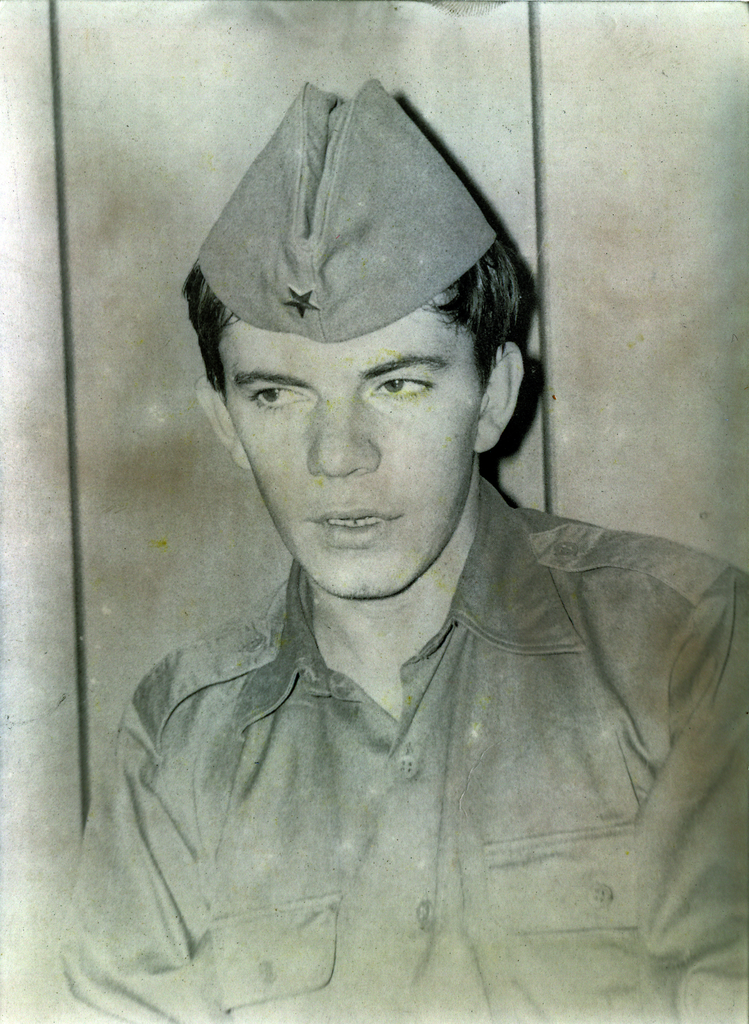 Serbian actor Slavko Štimac at the Pula Film Festival, during the military service in the Yugoslav People's Army, around 1985